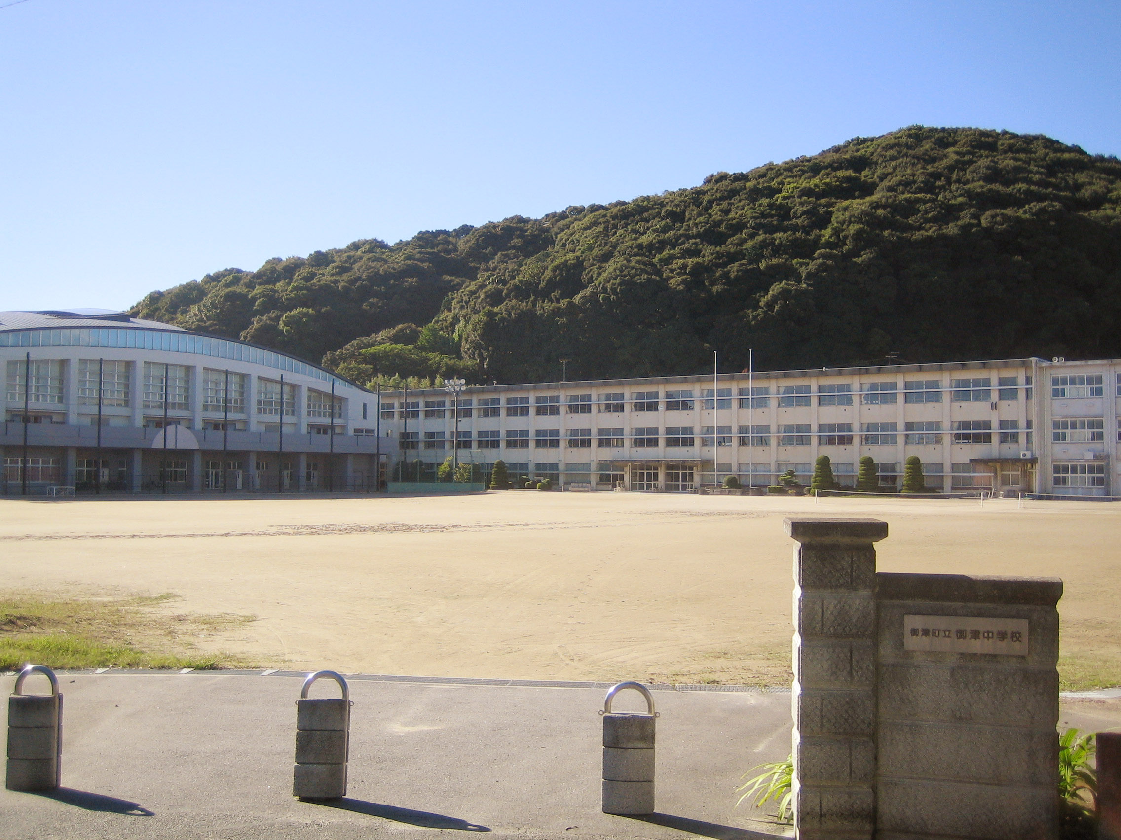 Mito Junior High School (御津中学校), at 20 Yamashita, Nagino, Mito, Aichi, Japan